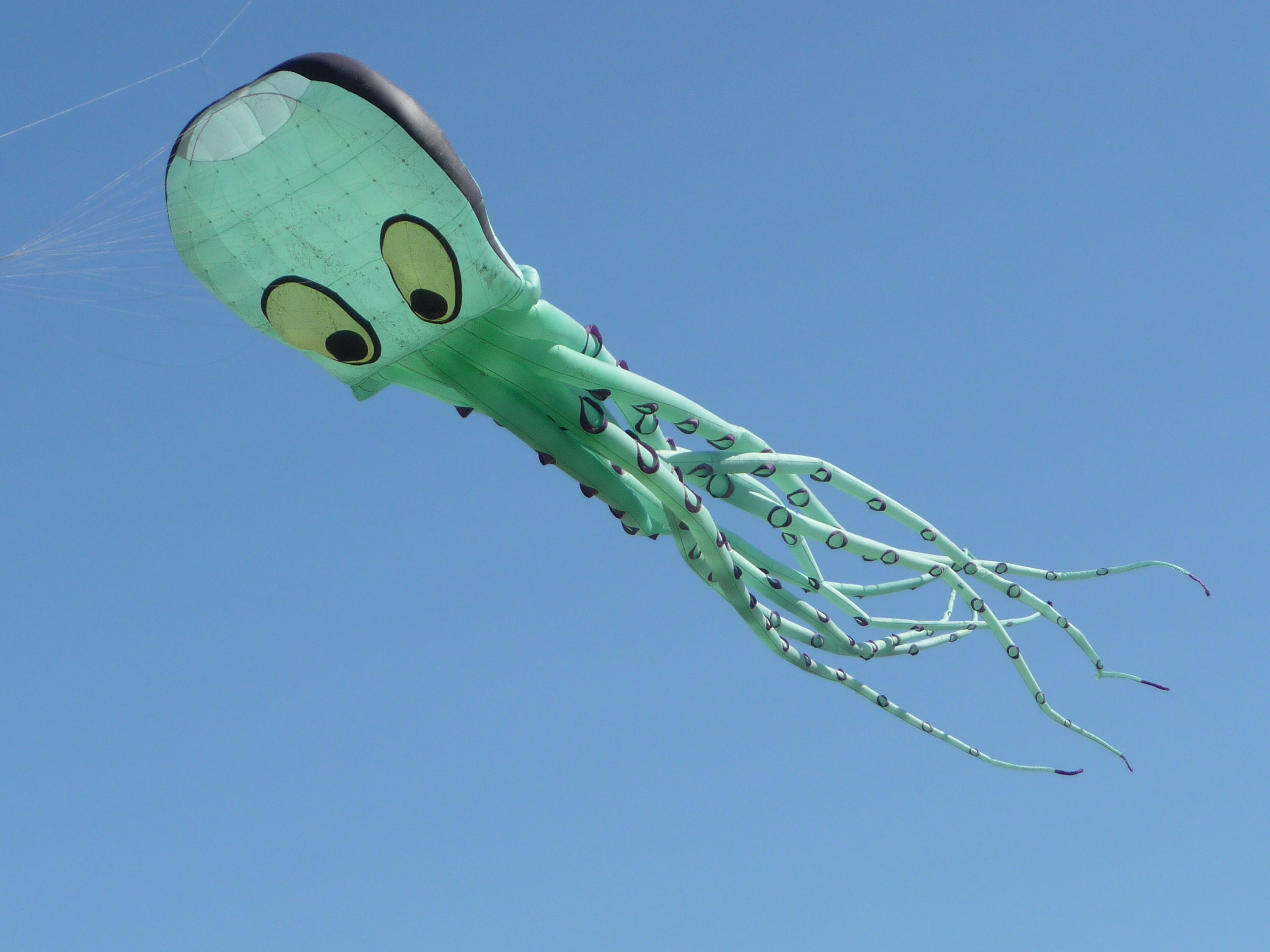 Catch The Wind